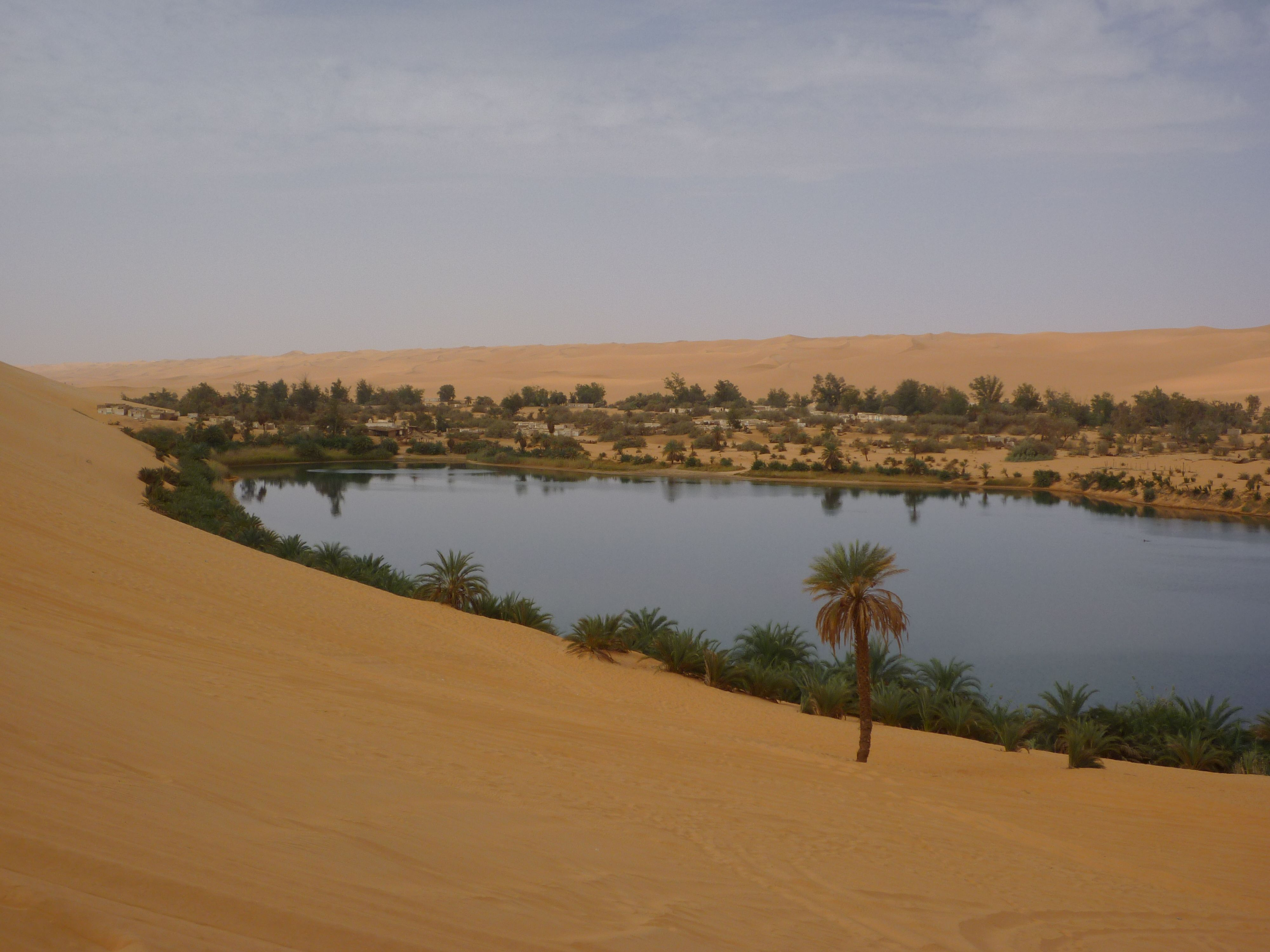 The Gaberoun Oasis — a Saharan oasis with a large lake located in the Sabha District, Fezzan region, southwestern Libya.